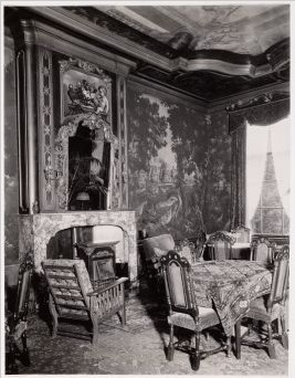 Interior of ground floor of Keizersgracht 143 Amsterdam